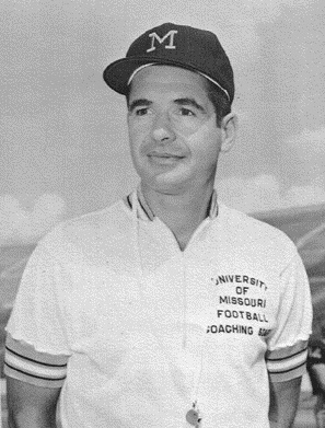 Photograph of Missouri football coach Dan Devine